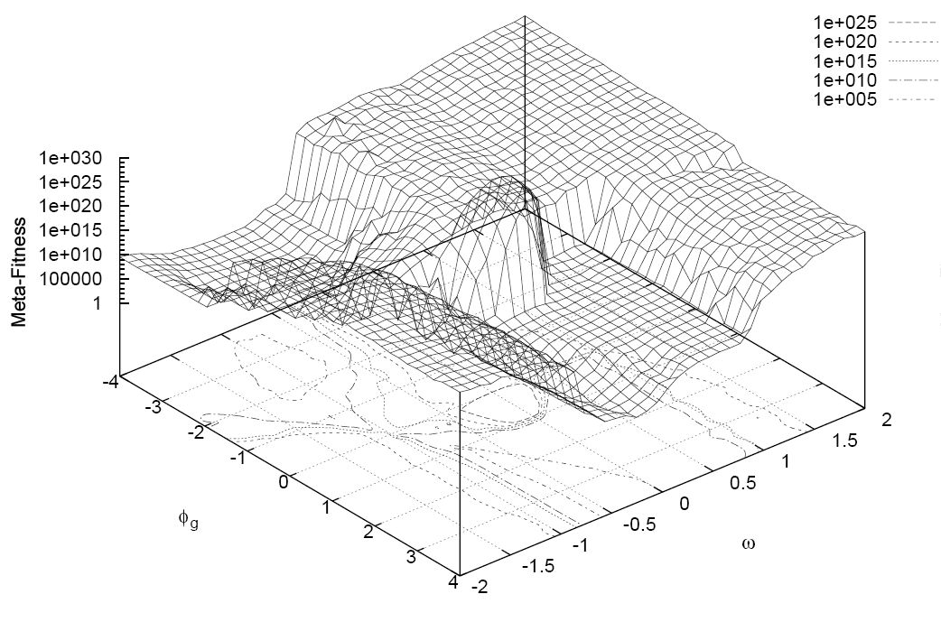 Performance landscape showing how a simple Particle Swarm Optimization (PSO) variant performs in aggregate on several benchmark problems when varying two PSO parameters. Lower meta-fitness values means better PSO performance. Such a performance landscape is very time-consuming to compute, especially for optimizers with several behavioural parameters, but it can be searched efficiently using the simple meta-optimization approach by Pedersen implemented in SwarmOps to uncover PSO parameters with good performance. Good choices would here seem to be in the region ω ∈ [ − 0.6 ; 0 ] {\displaystyle \omega \in [-0.6;0]} and ϕ g ∈ [ 2 ; 4 ] {\displaystyle \phi _{g}\in [2;4]} , and the region ω ∈ [ − 1.25 ; − 0.75 ] {\displaystyle \omega \in [-1.25;-0.75]} and ϕ g ∈ [ − 3.5 ; − 2 ] {\displaystyle \phi _{g}\in [-3.5;-2]}